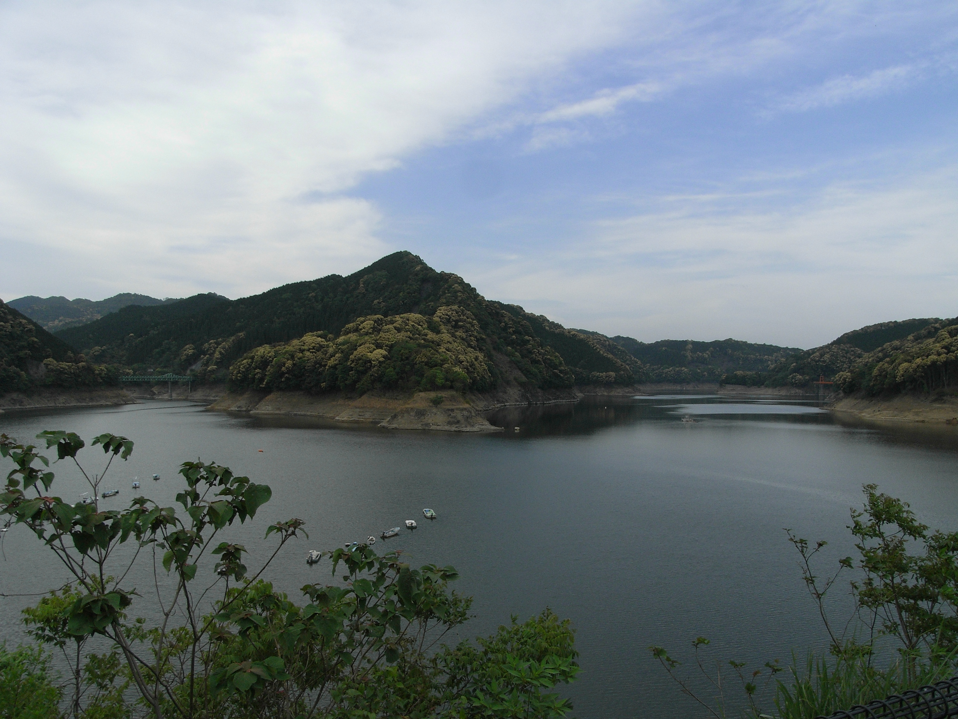 Lake Otsuruko(Sendai river/Kagoshima pref./Japan)